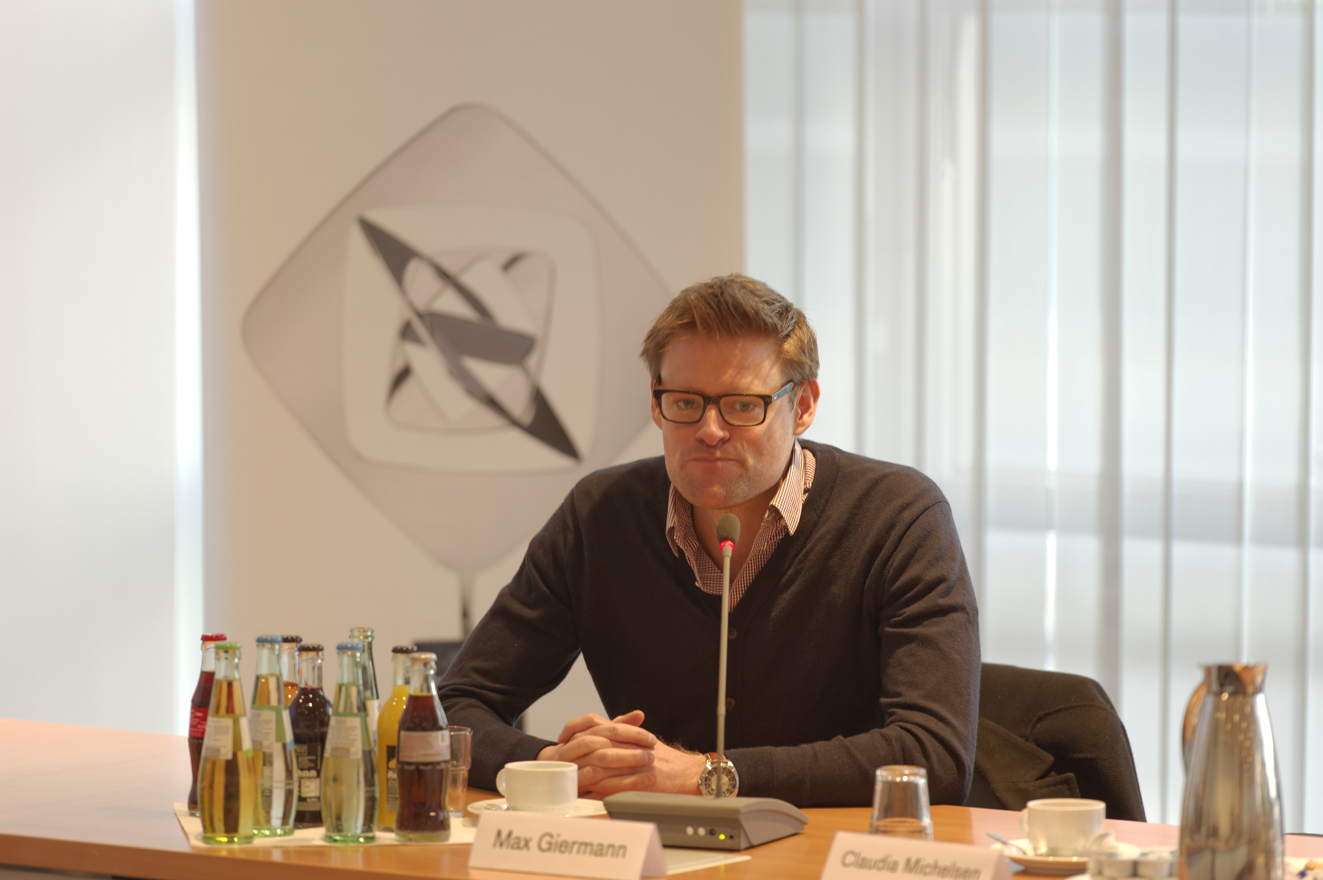 announcement of the winners of the Grimme prize 2013